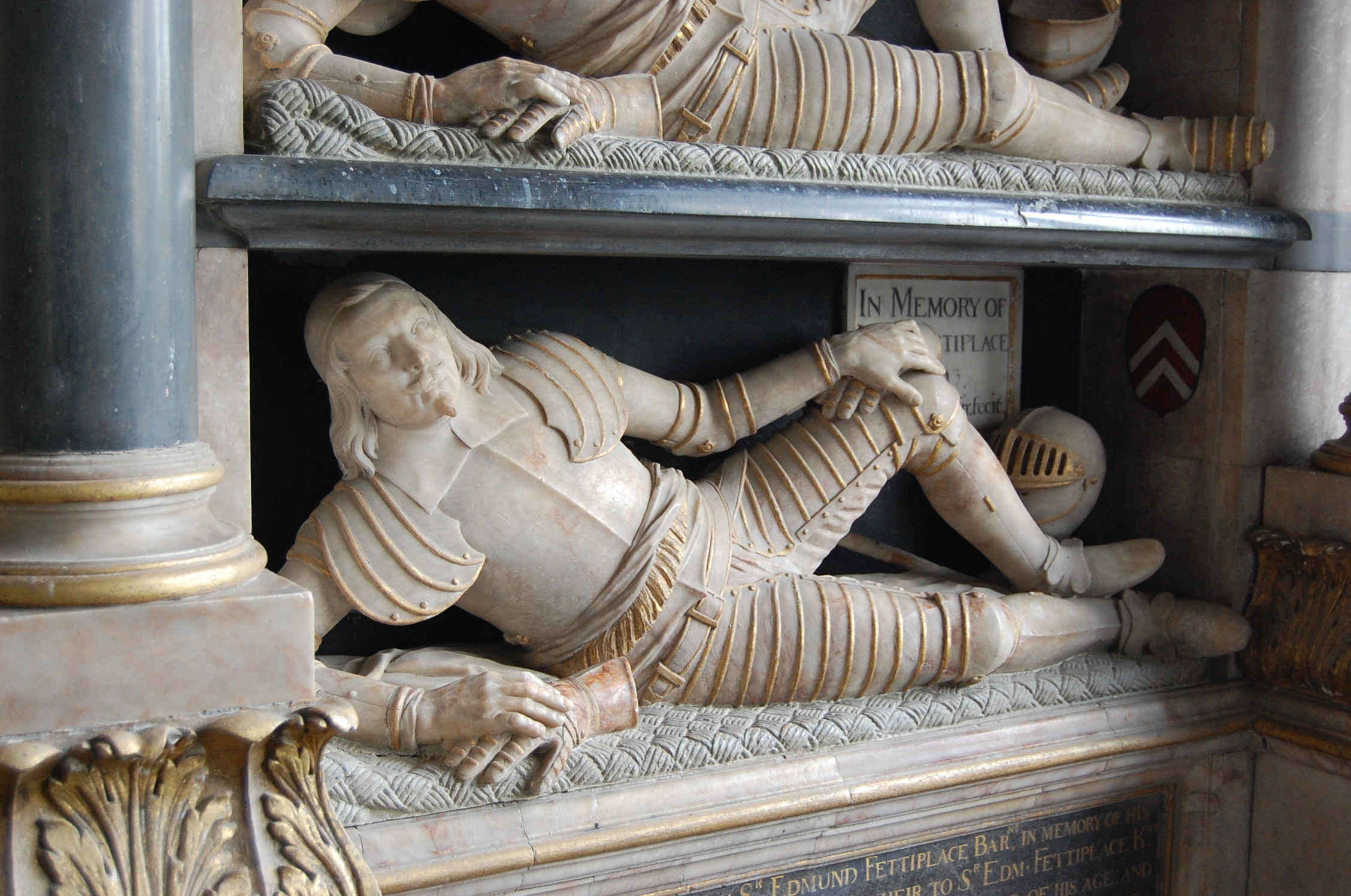 John Fettiplace, St Mary's Swinford